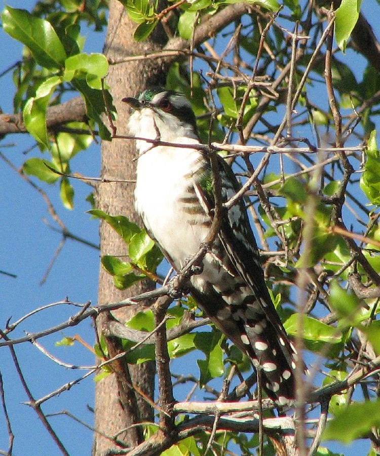 Diderik Cuckoo, Chrysococcyx caprius